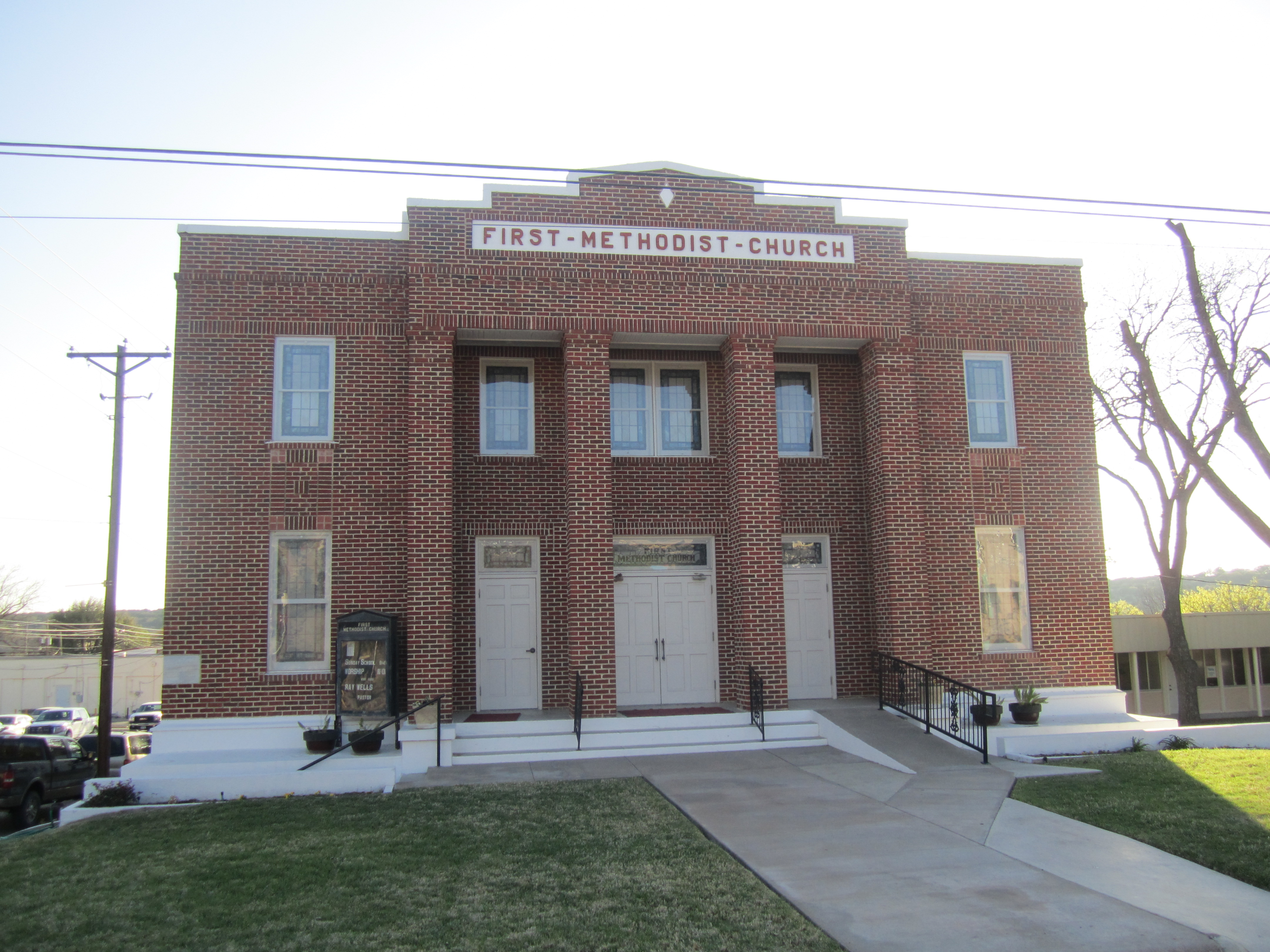 I took photo with Canon camera in Sonora, TX.